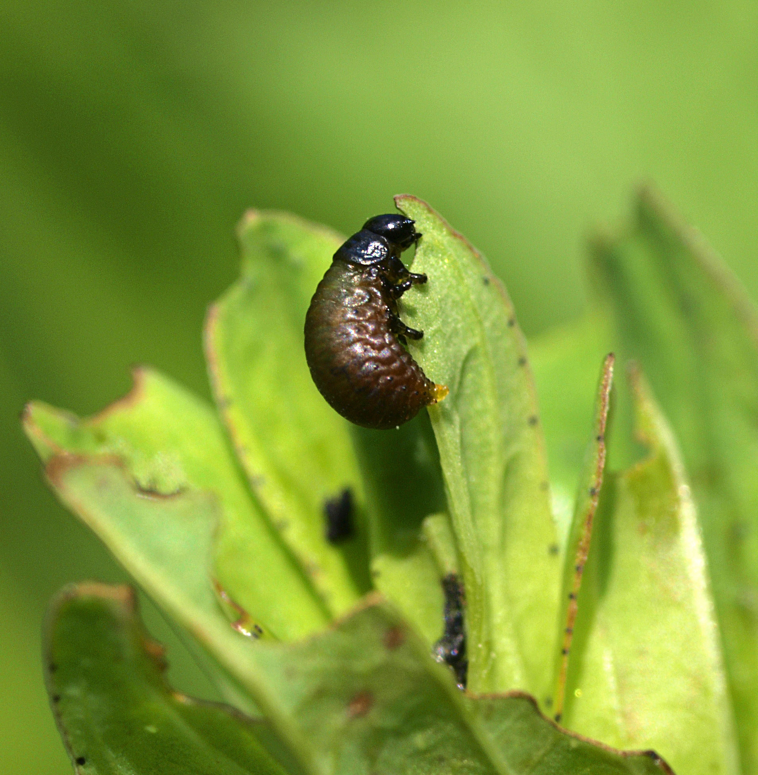 Larva of the leaf beetle Chrysolina varians on its host plant St John's wort. Chrysolina varians larve (en bladbille) på Prikbladet Perikon (Hypericum perforatum).